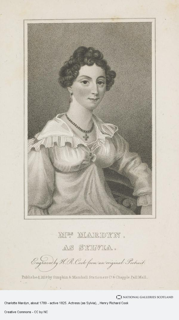 Charlotte Martyn as Sylvia c. 1825Charlotte Martyn as Sylvia c. 1825